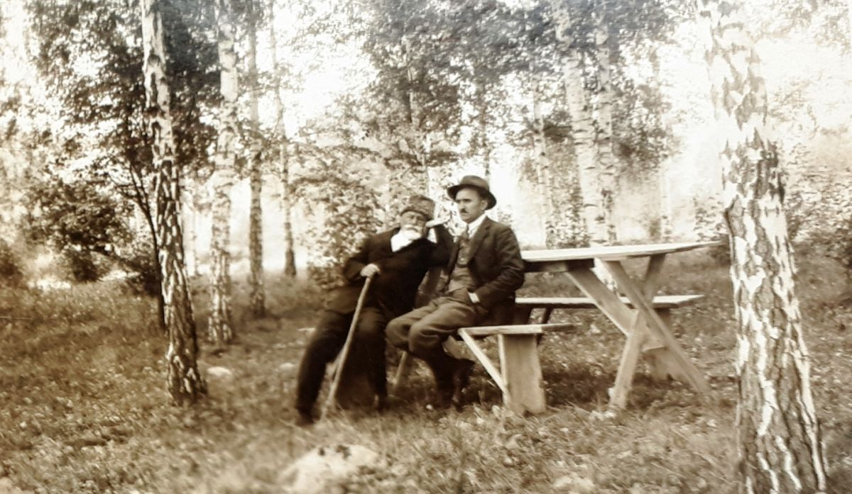 Forestry engineer Marin Rădulescu in 1934, with Iuliu Moldovan, during a trip to Dofteana, jud Bacău